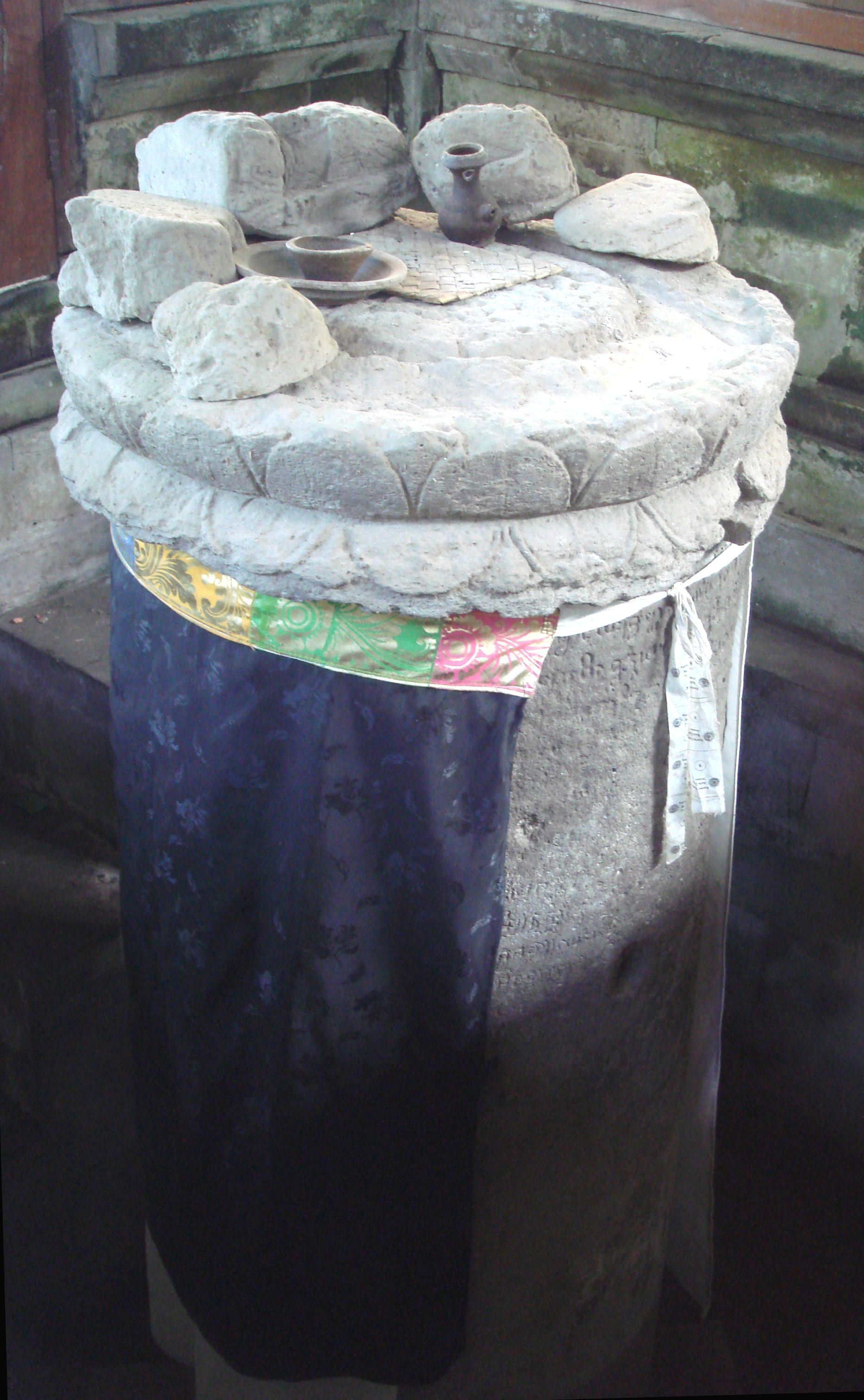 Sanur_Belankong Pillar